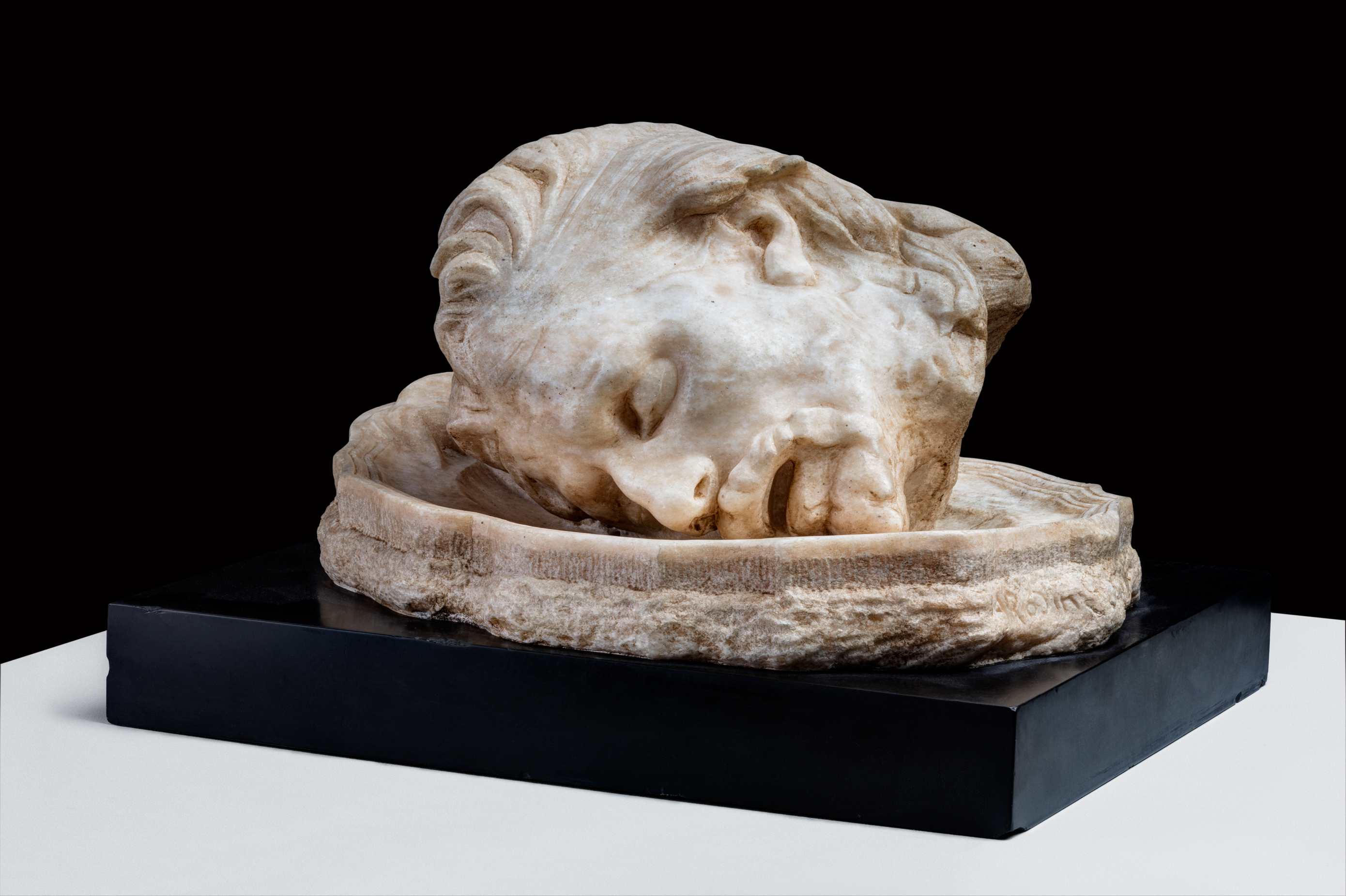 Head of Saint John the Baptist